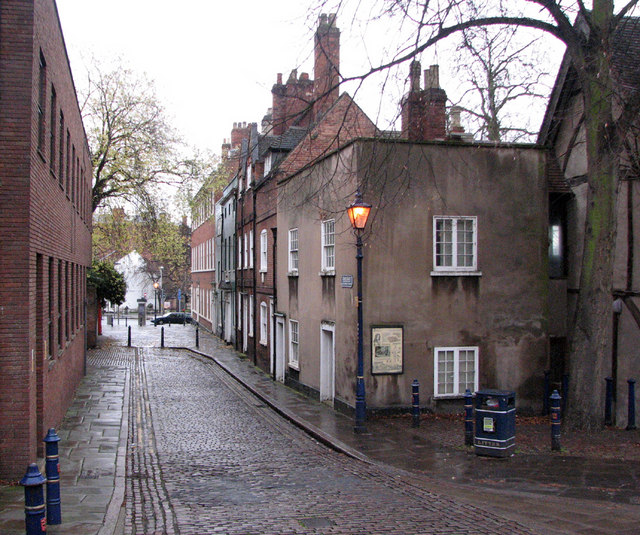 Castle Gate Another fine piece of Nottingham planning sanctioned the dreary, out-of-scale building on the left....